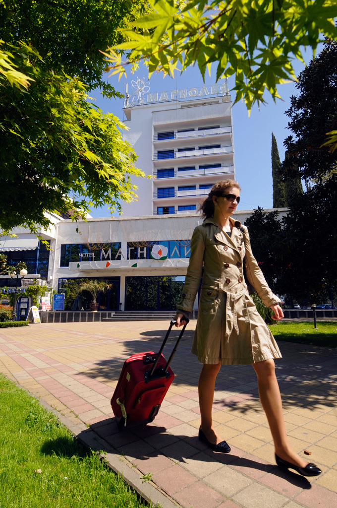 “Magnolia hotel in Sochi city”. Magnolia hotel in Sochi city.